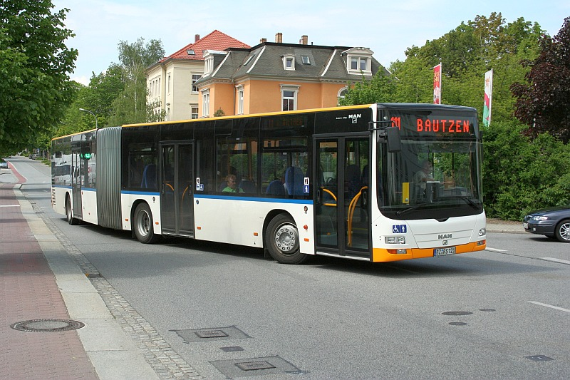 MAN Lion's City G NGxx3 (A23) city bus in Bautzen, Germany.